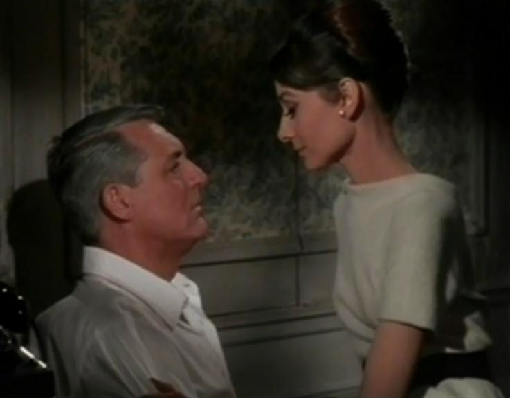 Cary Grant & Audrey Hepburn in Charade - cropped screenshot